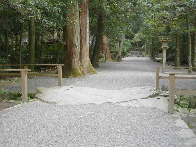 kame-ishi is a stone bridge in Toyoukedaijingu(Geku), Ise city, Mie prefecture, Japan.